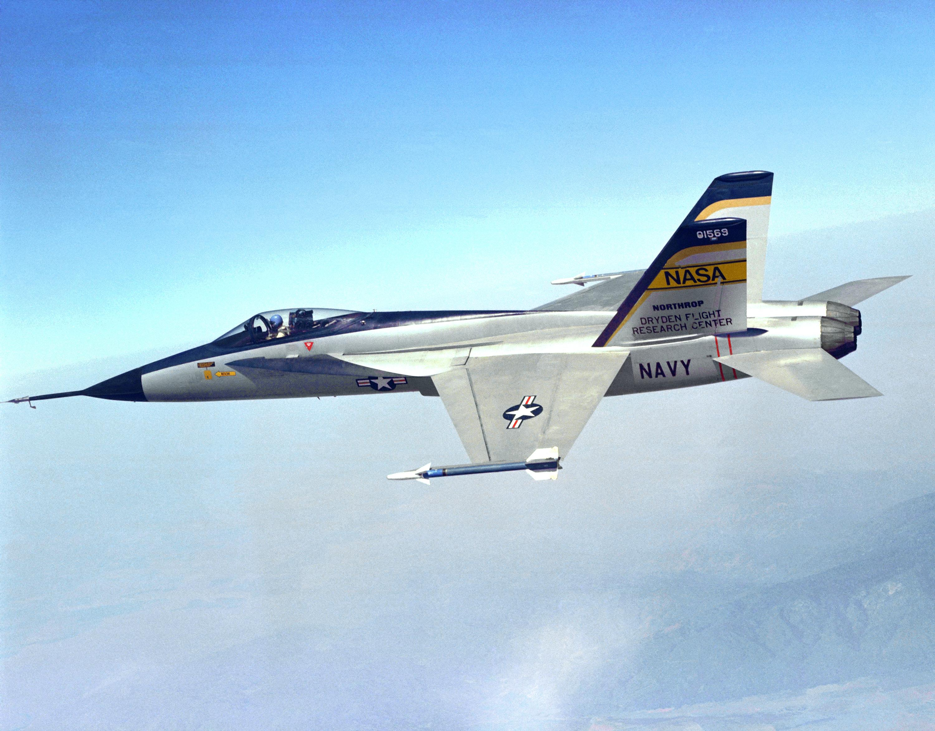 The Northrop Aviation YF-17 technology demonstrator aircraft in flight during a 1976 flight research program at NASA's Dryden Flight Research Center, Edwards, California. From May 27 to July 14, 1976, the Dryden Flight Research Center, Edwards, California, flew the Northrop Aviation YF-17 technology demonstrator to test the high-performance U.S. Air Force fighter at transonic speeds.